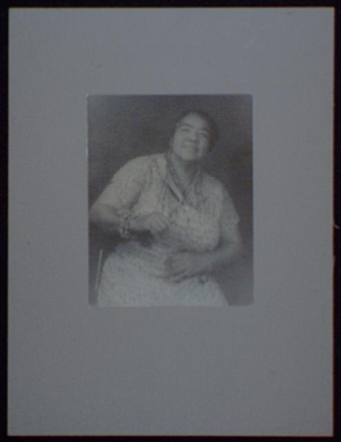 Title: Portrait of Lizzie Miles Abstract/medium: 1 photographic print : gelatin silver.